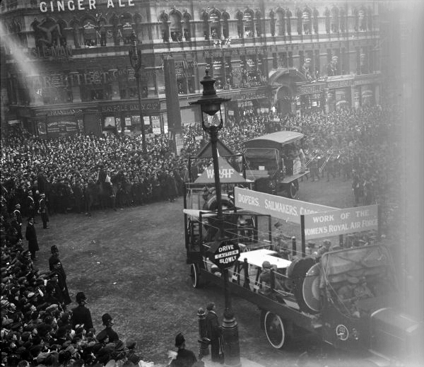 Photographer: Thomas Frederick Scales The WRAF on parade in London at the end of World War I, 1918 Dry plate glass negative Reference No. 1/2-014077-G Royal New Zealand Returned and Services' Association Collection, Alexander Turnbull Library, National Library of New Zealand Find out more about this image from the Alexander Turnbull Library.